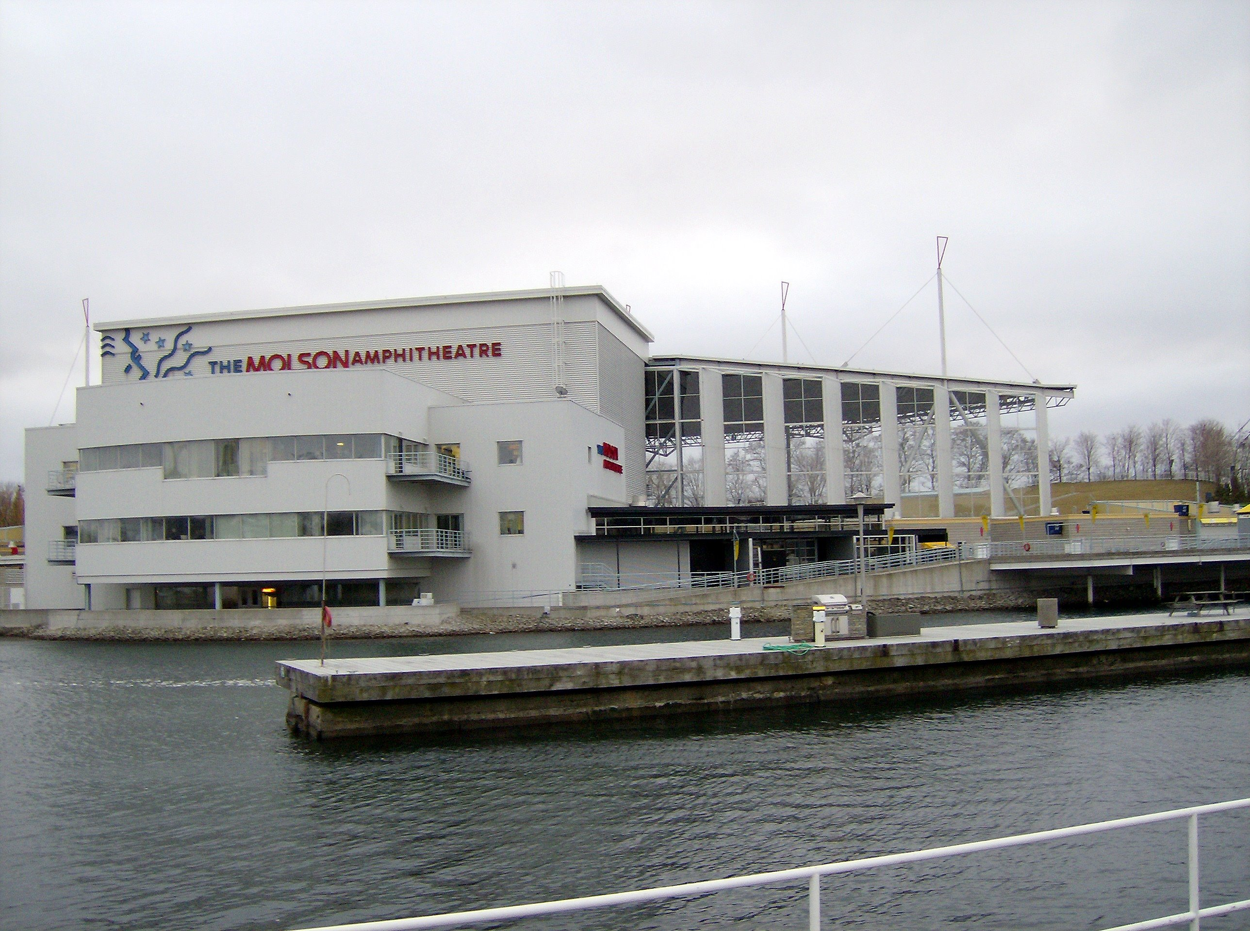 self made